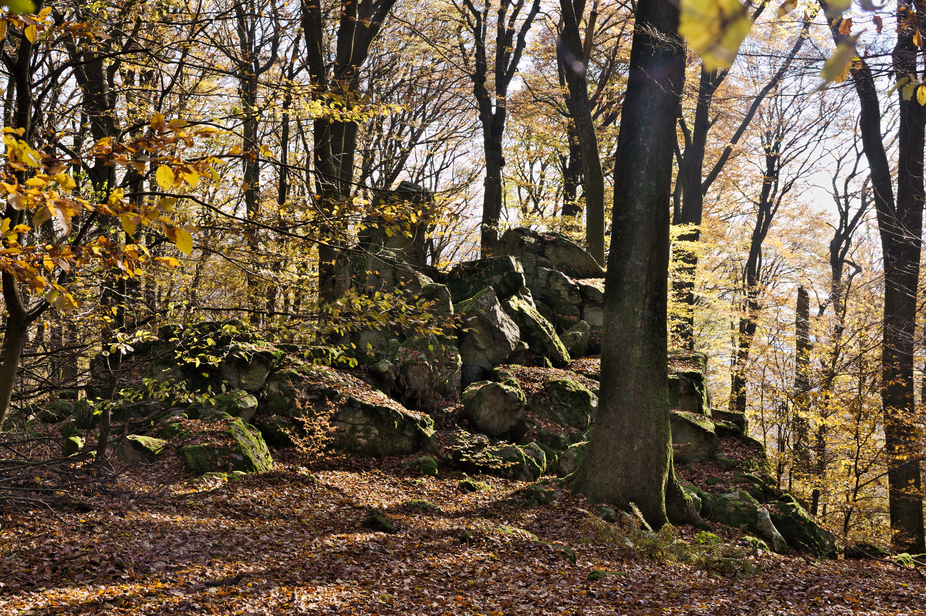 Malberg mountain top with rocks and beeches. Part of a nature reserve in Westerwaldkreis, Germany